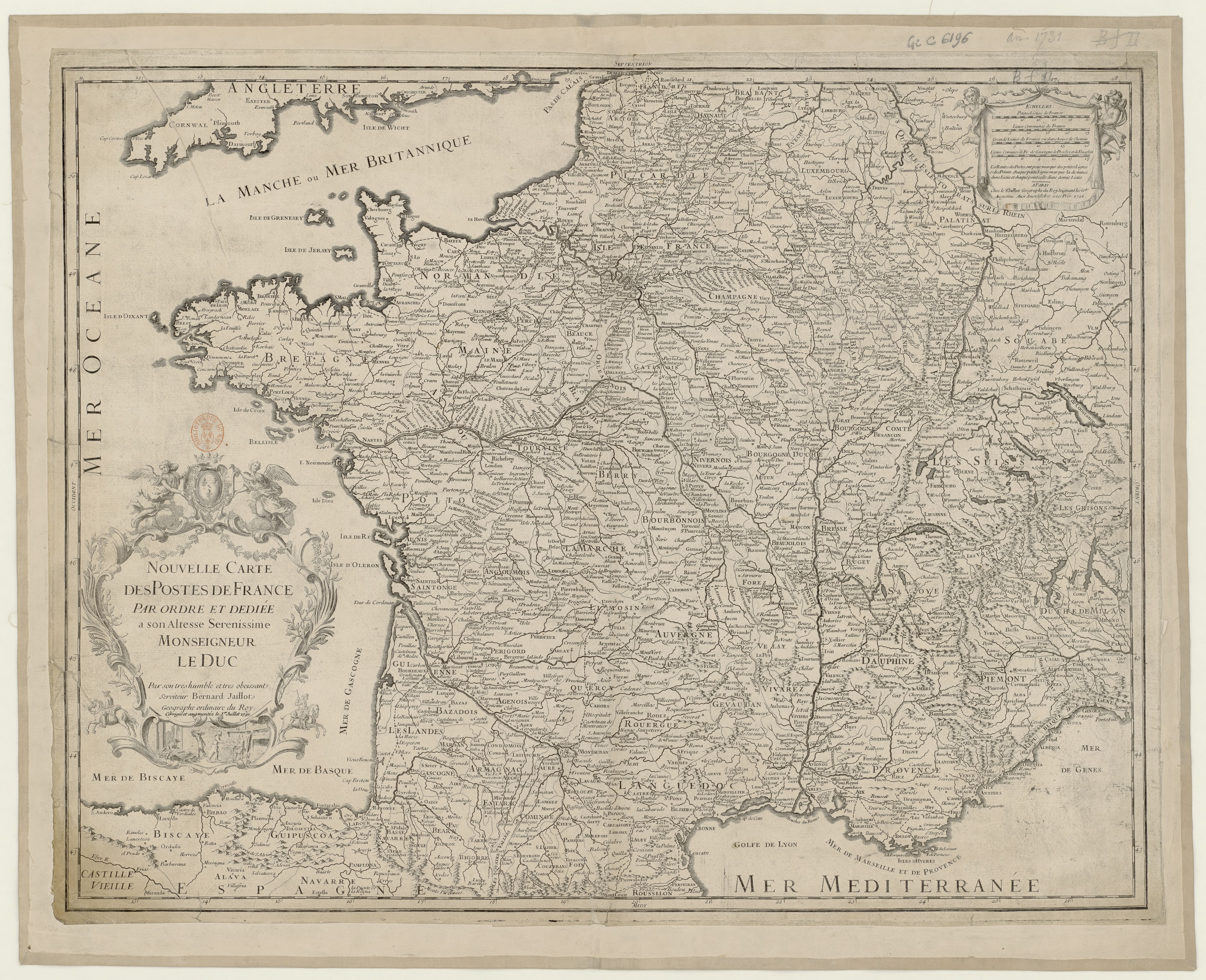 Jaillot’s map of Post roads in France (1731).